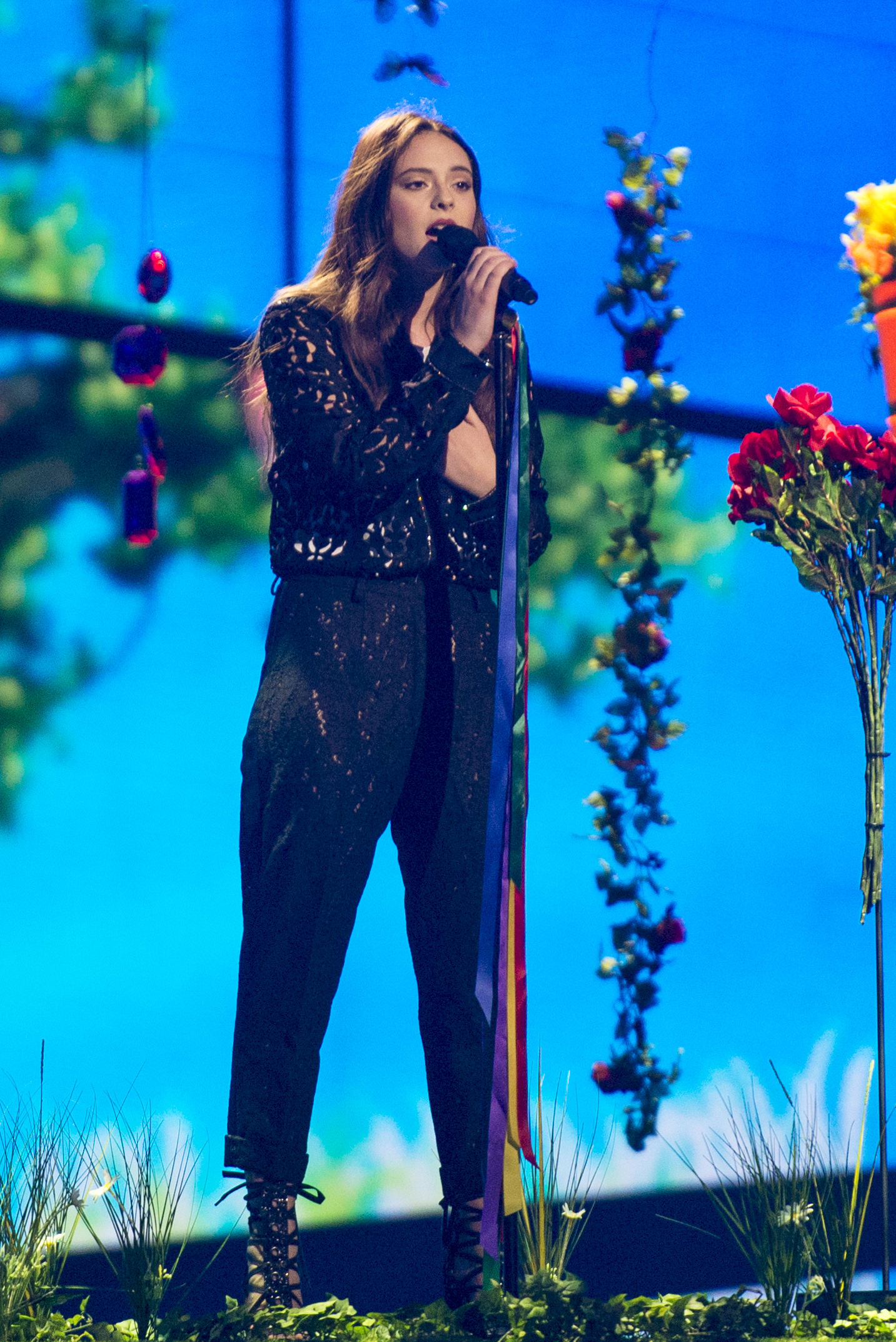 Francesca Michielin representing Italy with the song "No Degree Of Separation" during a rehearsal for "the Big Five" in the Eurovision Song Contest 2016 in Stockholm. (Help translate this text)